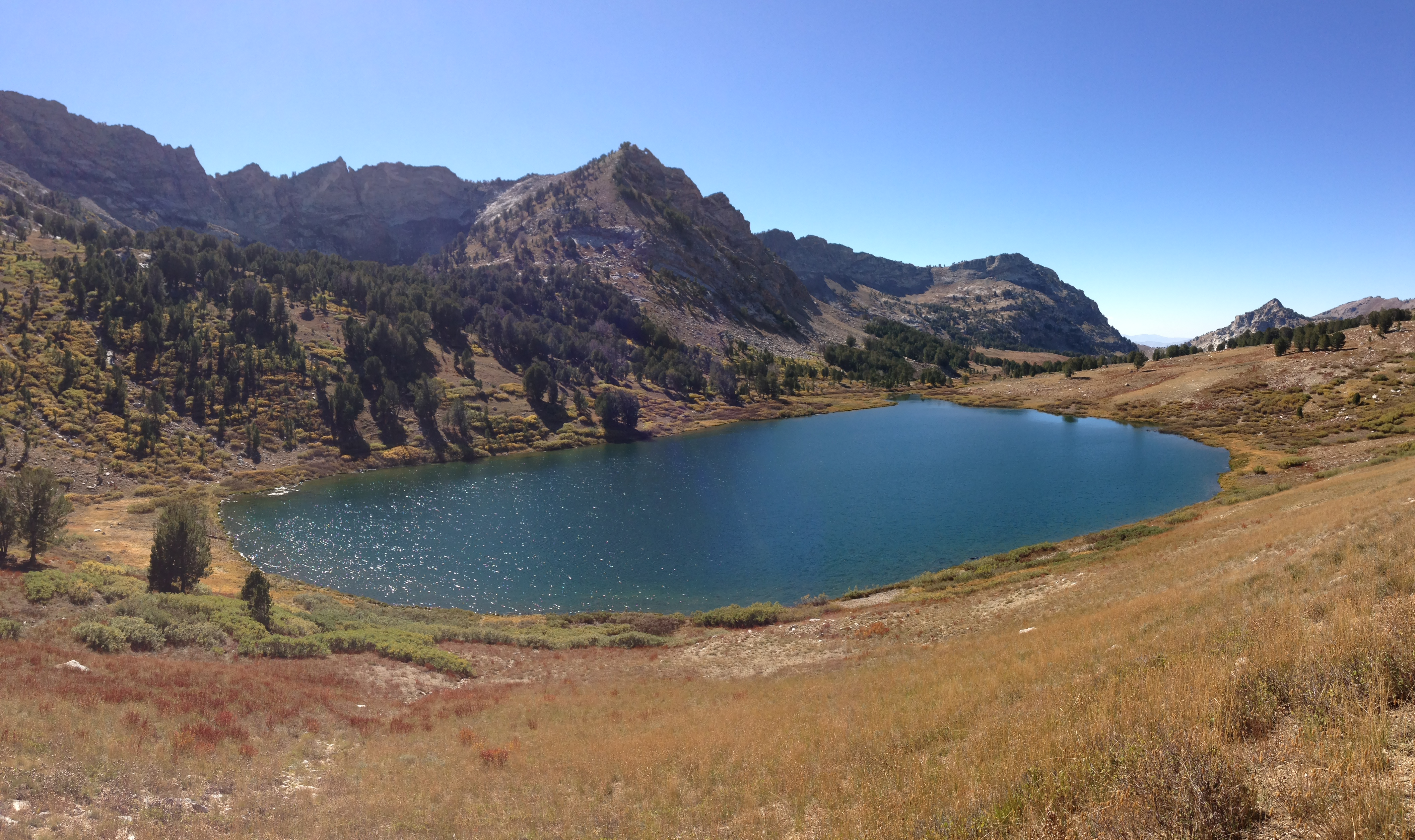 Panorama west-southwest towards Favre Lake from the Favre Lake Trail on September 18th 2013